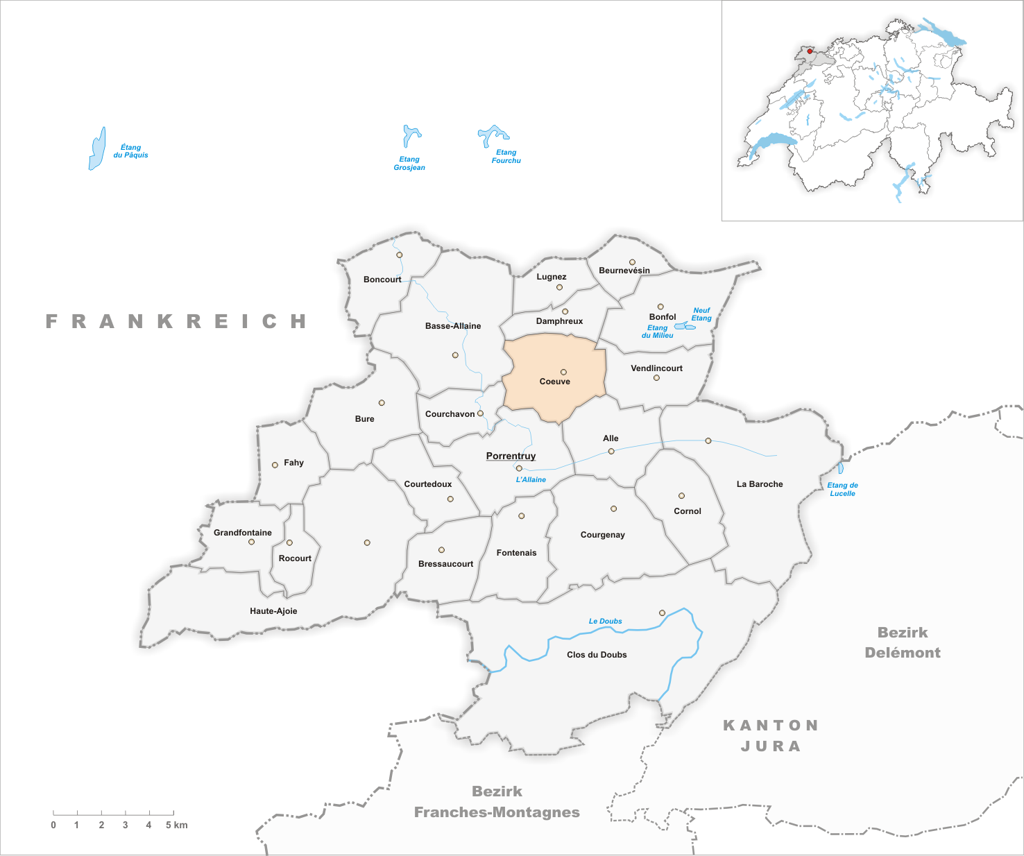 Municipality Coeuve